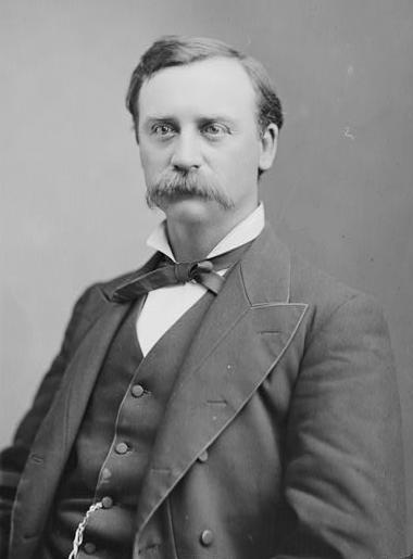 Martin L. Clardy, US Representative from Missouri